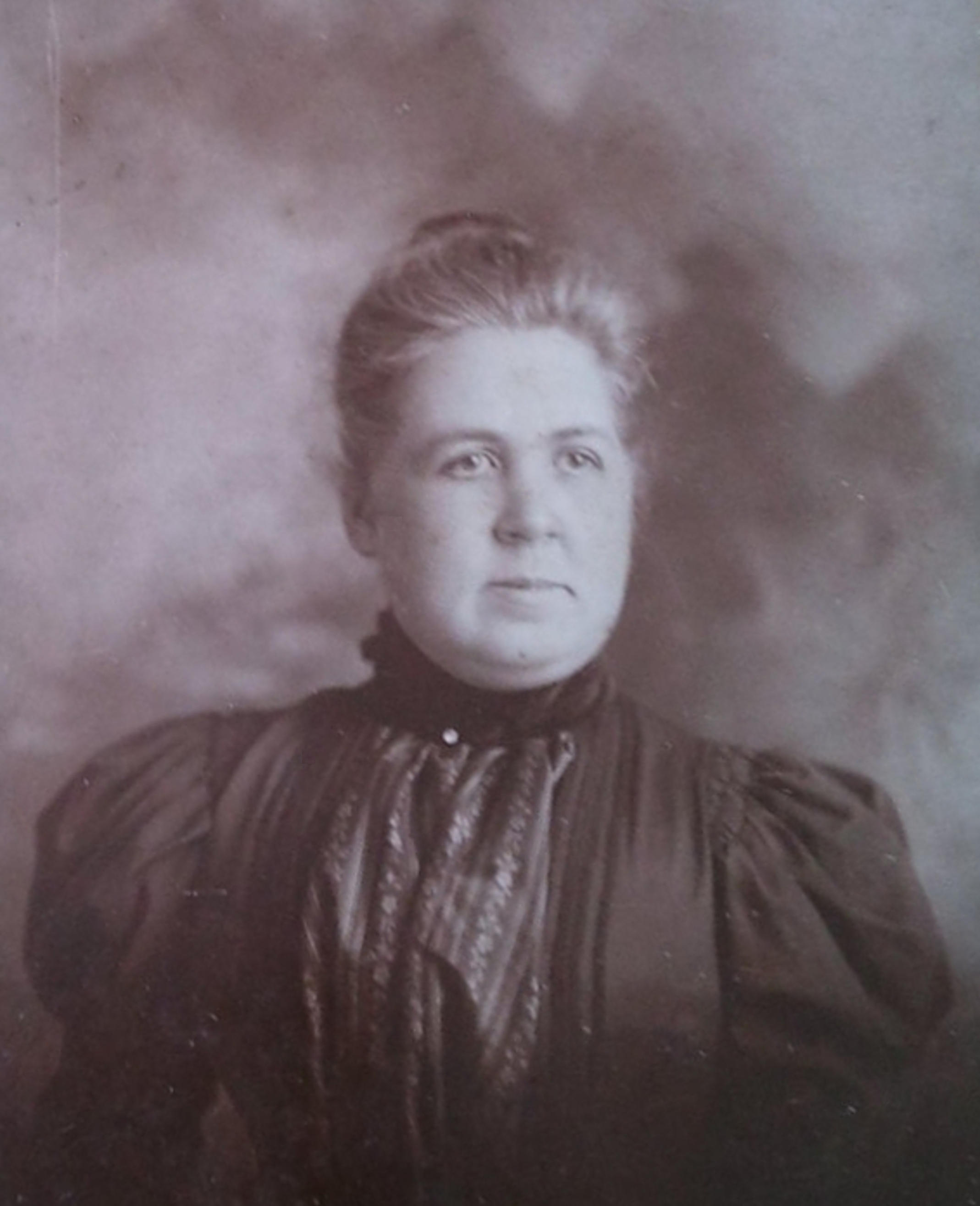 Amy Ella Blanchard (June 28, 1856 – 1926) was an American writer of children's literature.